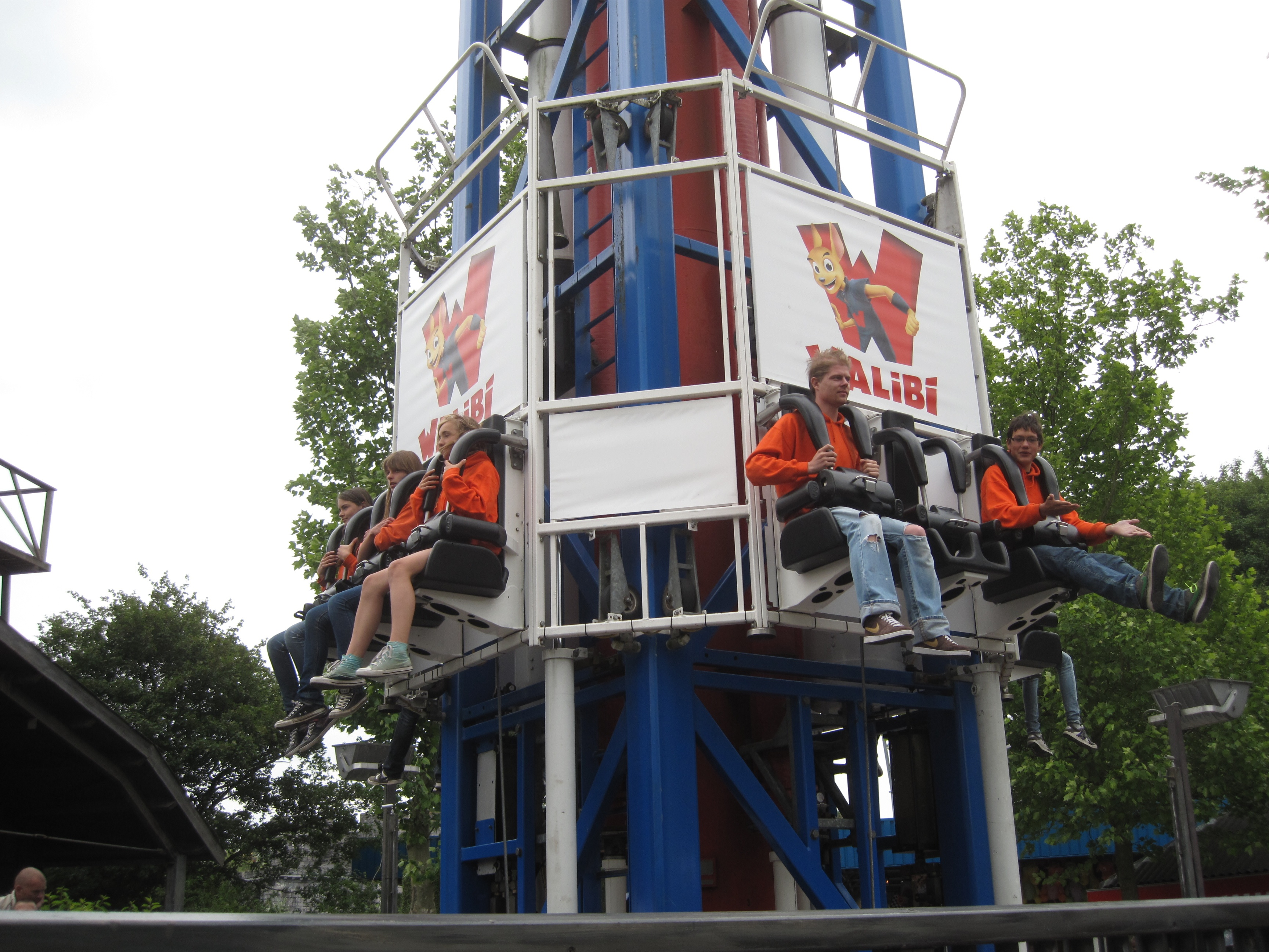 Space shot Walibi Holland